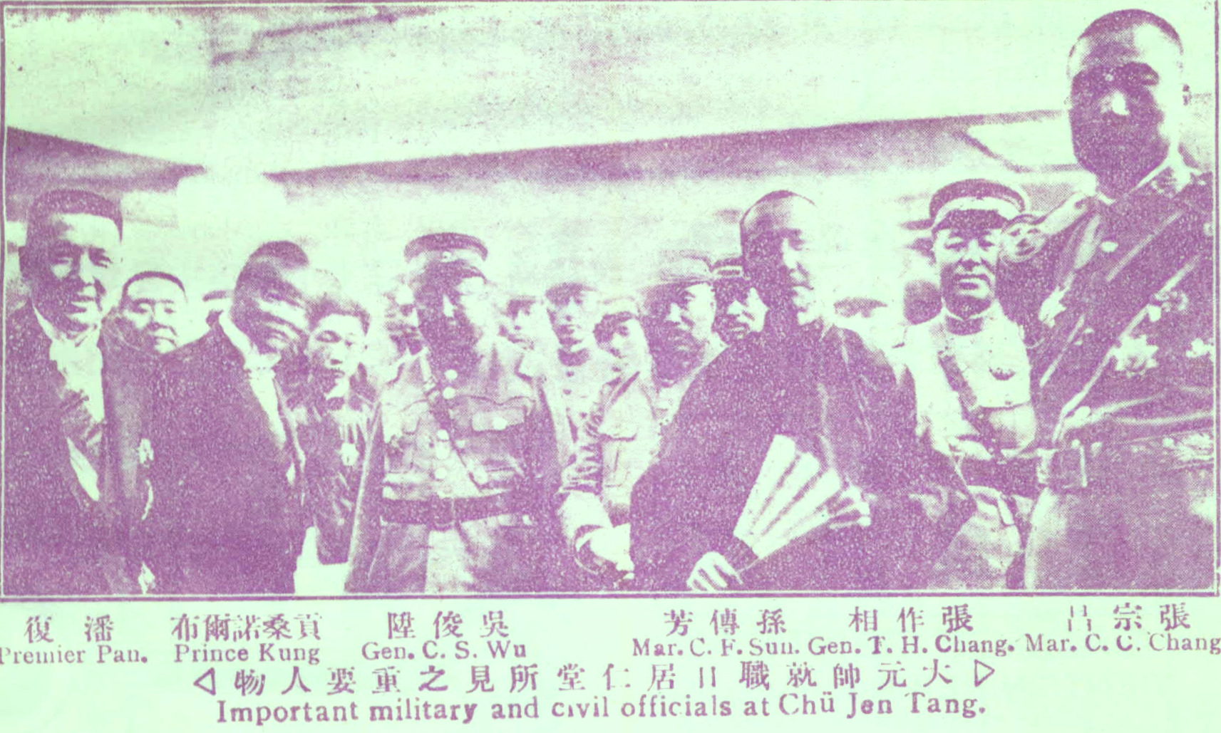 Important person during Zhang Zuolin became the Grand Marshal of "National Pacification Military government"